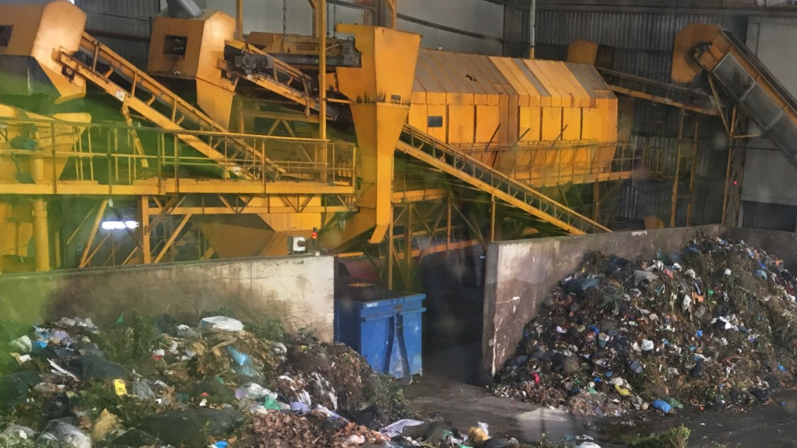 Trommel of the Consorci per a la Gestió dels Residus del Vallès Oriental (Barcelona).